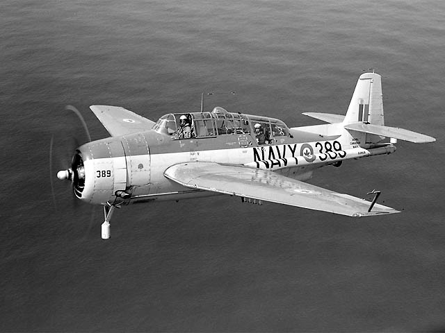 Grumman Avenger